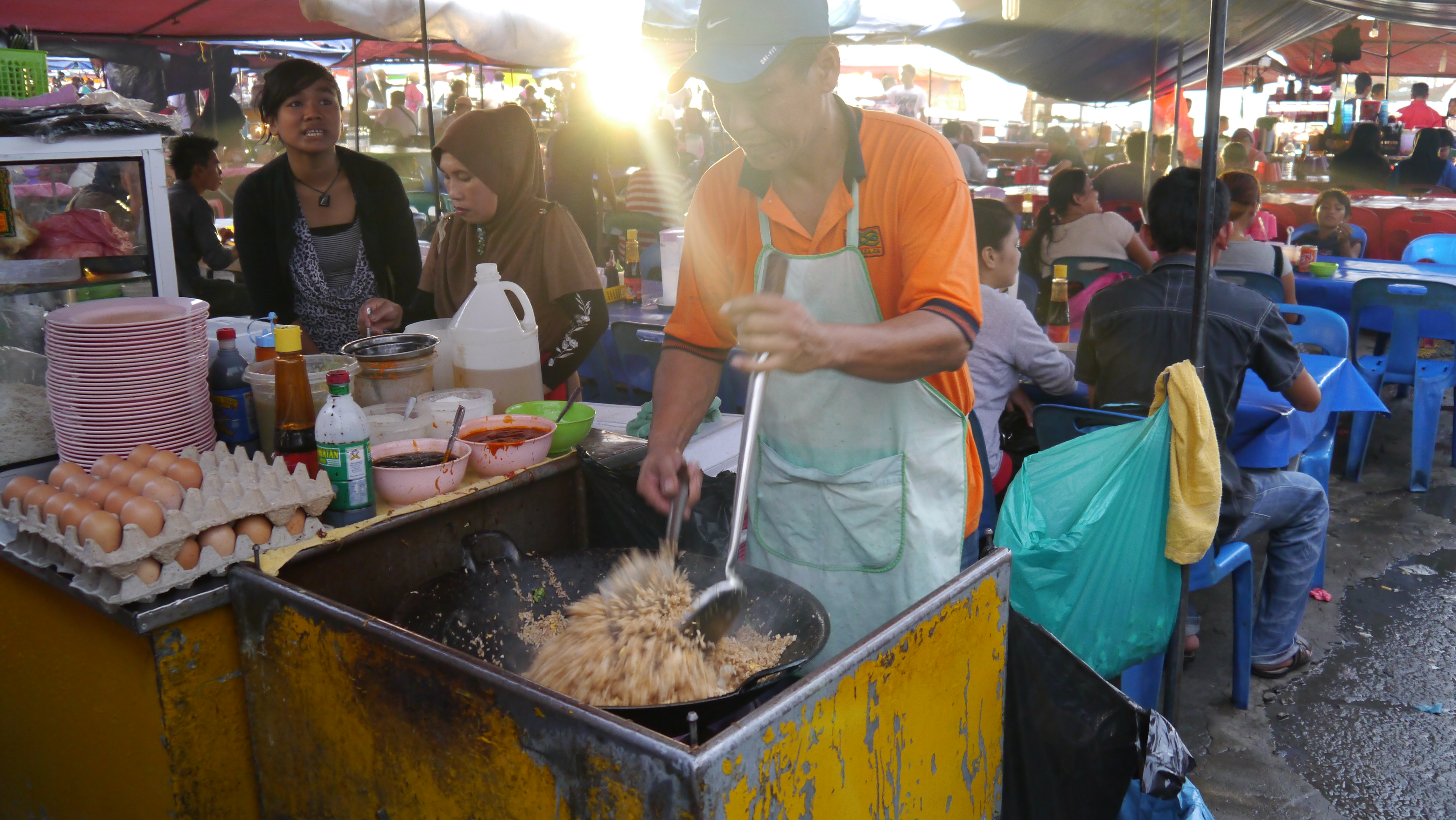 A cook making fried rice in Kota Kinabalu food market at dusk.